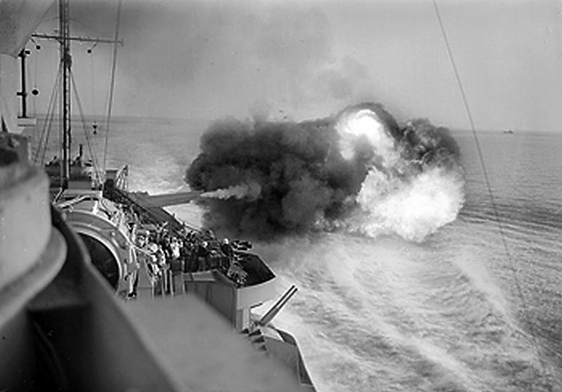 British ship HMS Warpite of the coast of Sicily 1943